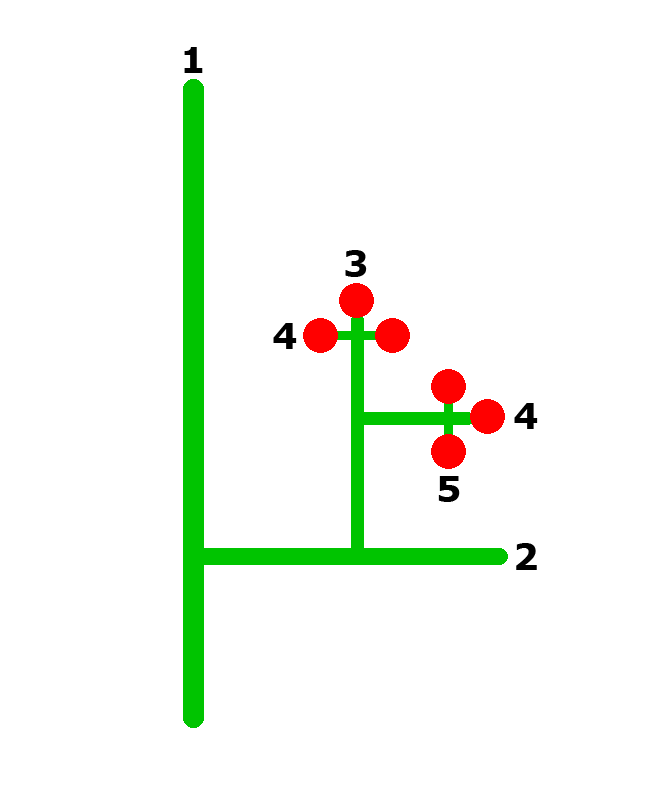 Inflorescence branching order in panicles of the New Zealand cabbage tree (Cordyline australis). The inflorescence usually has four levels of branching: 1: the main stem; 2: The side branches (10 to 50); 3: Flower-bearing branches (100 to 500); 4: The single flowers themselves (thousands); 5: Sometimes the largest side branches have a fifth level of branching. After diagram at page 109 of Simpson, P. (2000). Dancing Leaves: The story of the New Zealand cabbage tree: Tī Kōuka. Christchurch. Canterbury University Press.